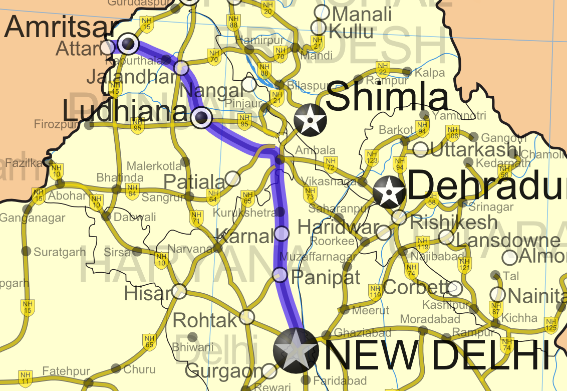 Map showing the national highway network in India. Includes NHDP projects upto phase IIIB which is due to be completed by December 2012. For actual progress of the NHDP refer to the maps below.